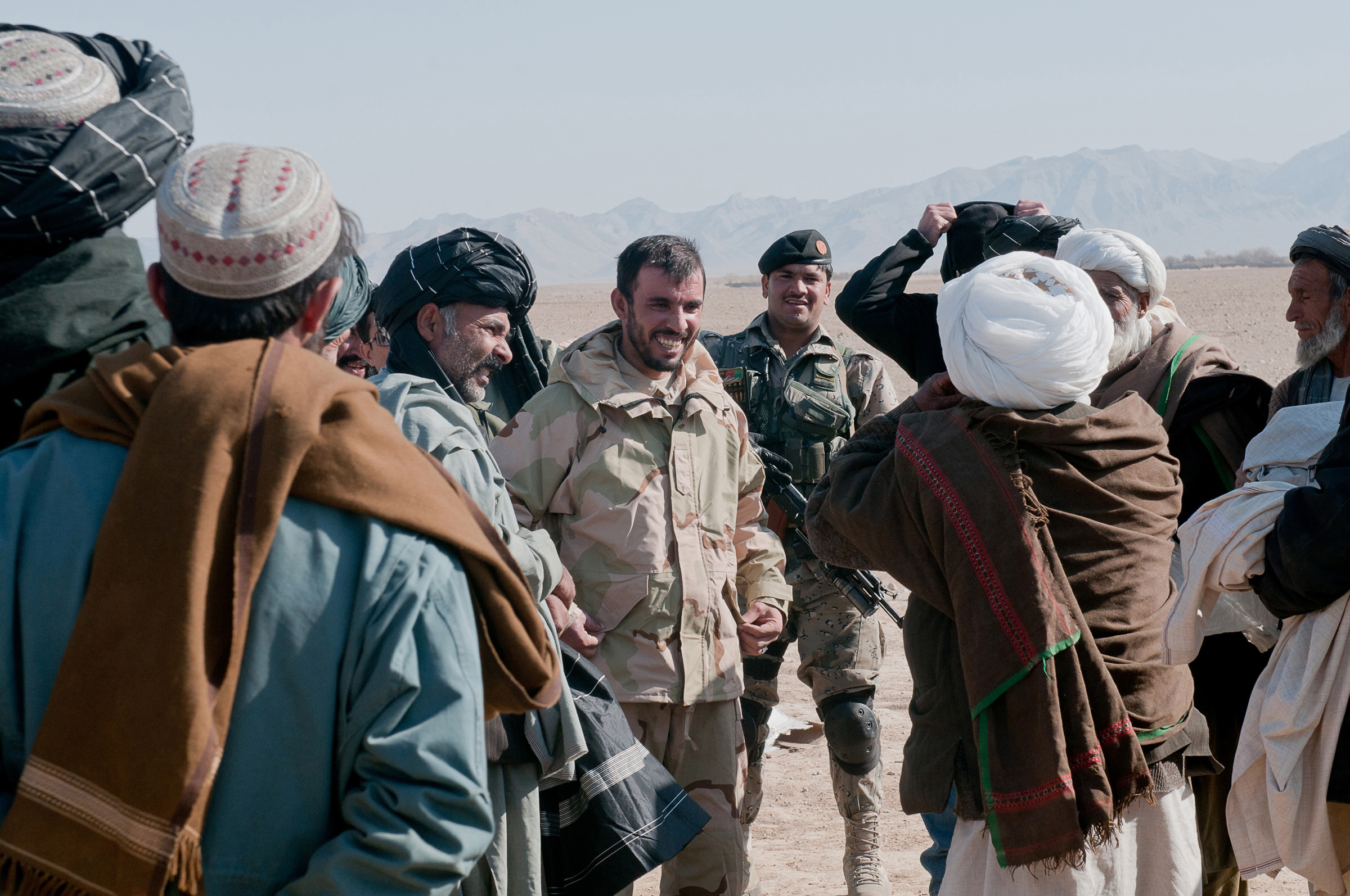 Provincial Chief of Police, Brig. Gen. Abdul Raziq, talks with district elders following a key leader engagement to discuss security and development projects in Ghorak district, Kandahar province, Afghanistan, Jan. (US Army photo by Staff Sgt. John A. Mattias)